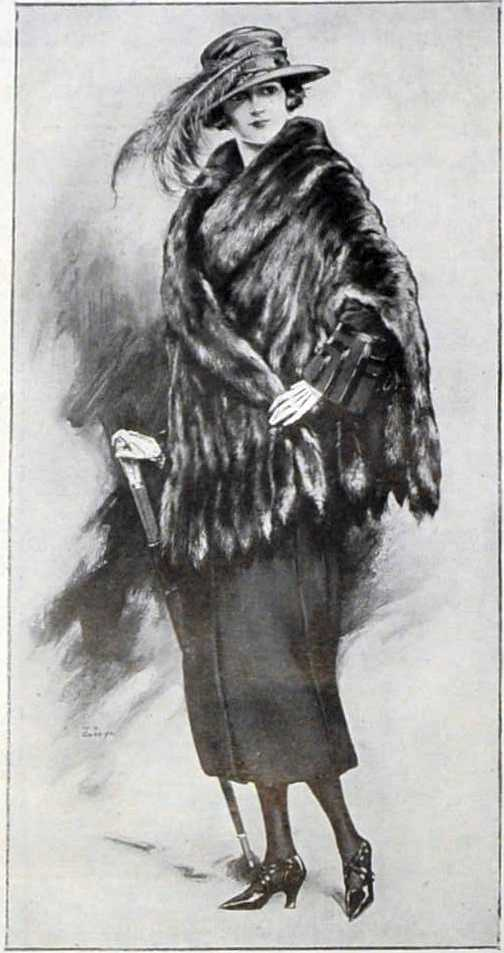 Christmas Presents for All, including a Kolinsky wrap available at The International Fur Store, London; from: Illustrated Sporting and Dramatic News, 1921 (cropped)